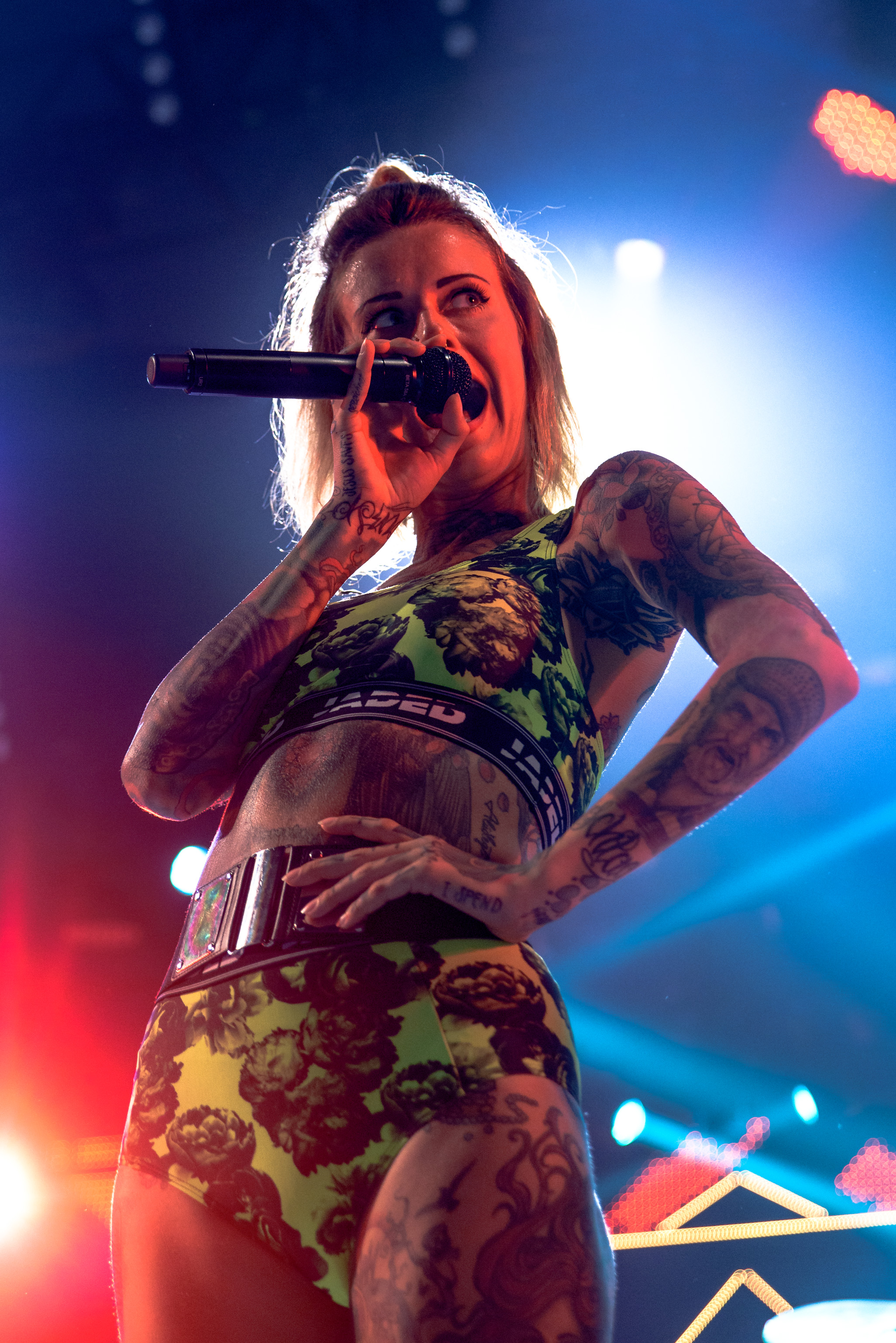 Jennifer Rockstock in Munich 2015